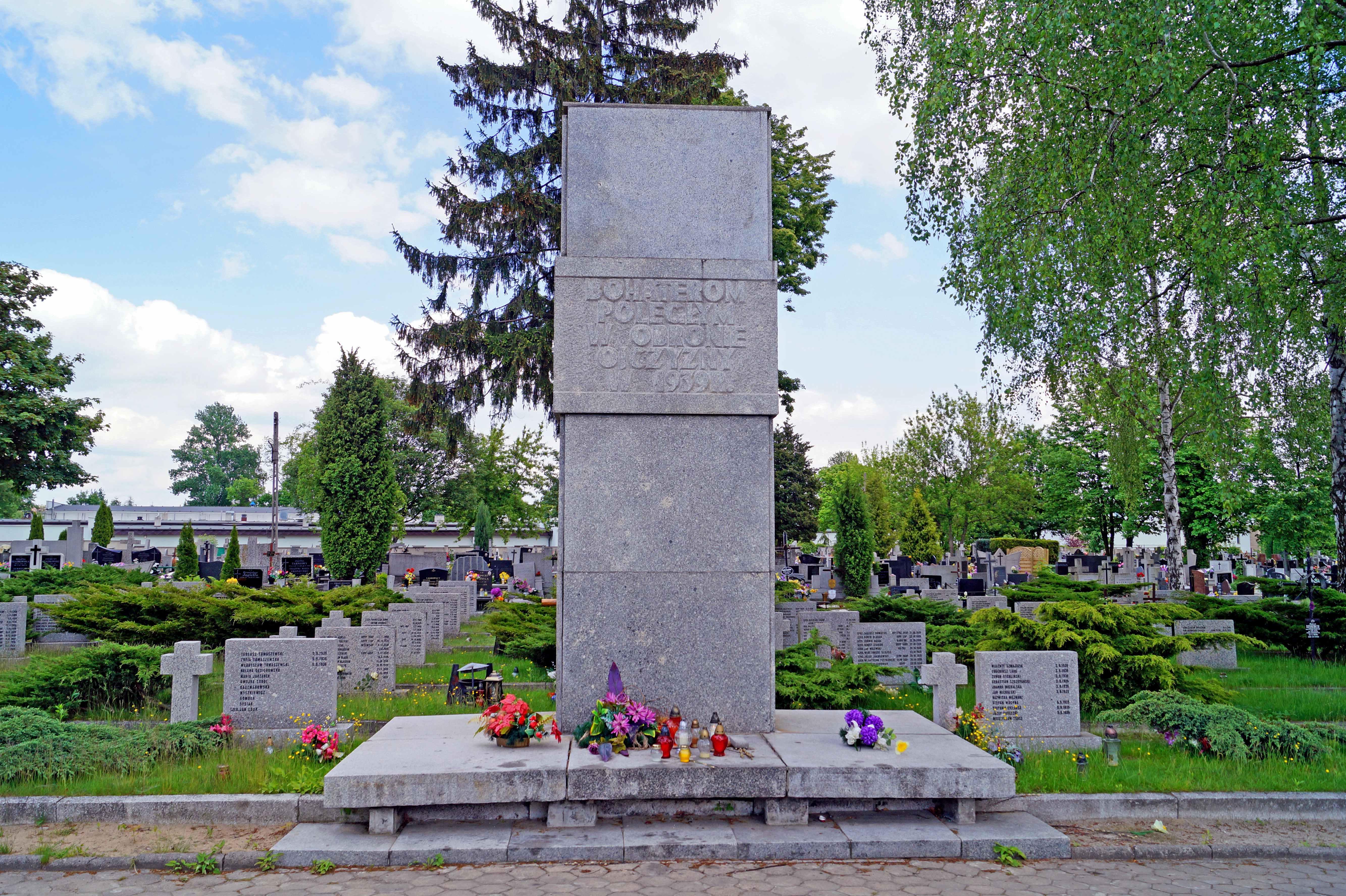 Military quarters and obelisk 1939, Cemetery (na Mani) of St. Anthony in Łódź, Poland